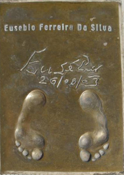 Footprint of Eusébio in Champions Promenade, Monaco. The winner of the Golden Foot award leaves a permanent mould of his footprints on "The Champions Promenade", on the seafront of the Principality of Monaco.